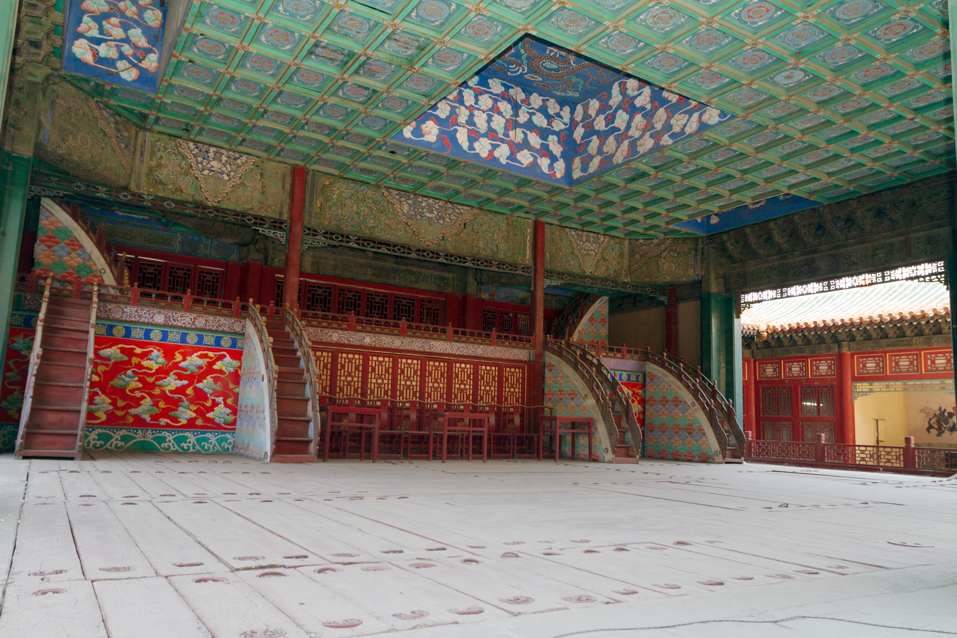 Pavilion of Pleasant Sounds stage